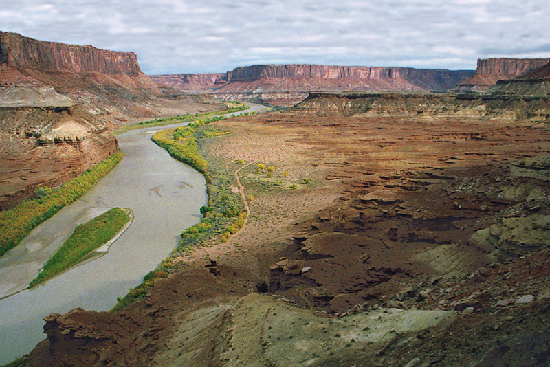 Canyonlands National Park, Utah, USA, Green River from White Rim Road's Hardscrabble Hill